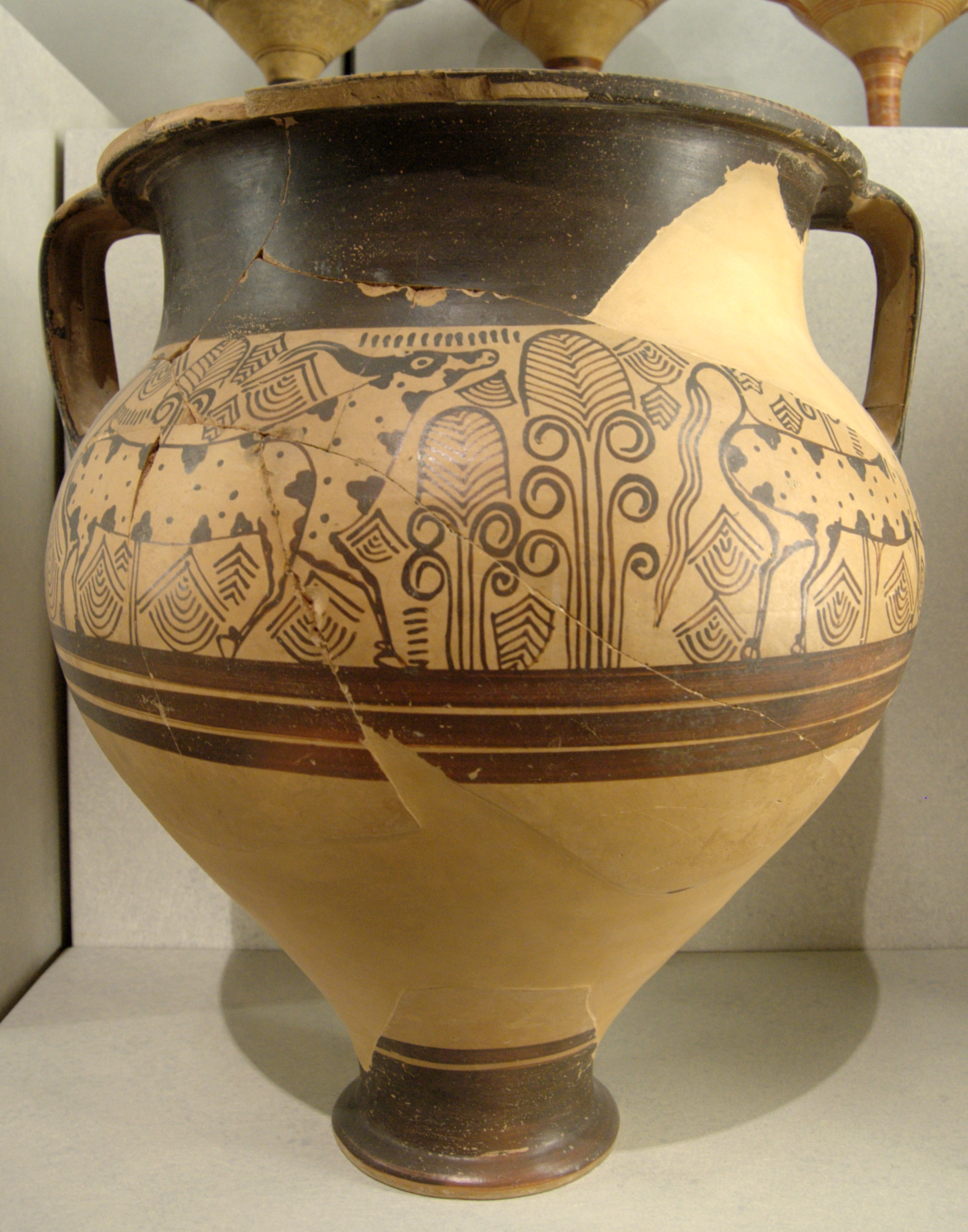 Bull and cow in a papyrus plantation. Amphoroid krater, Late Helladic III A2 (ca. 1300 BC). From Rhodes.